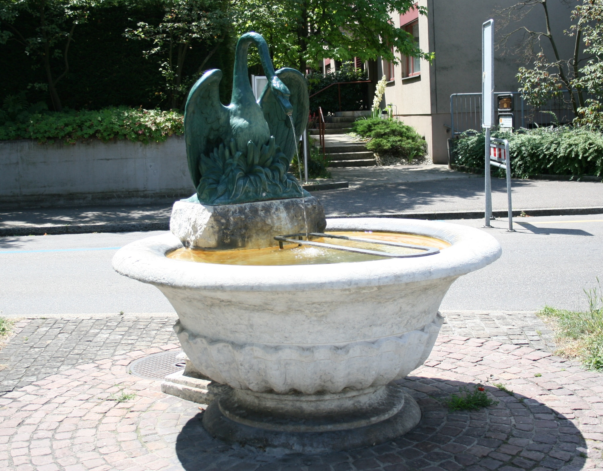 Water well "Schwanenbrunnen" in Basel, Switzerland.